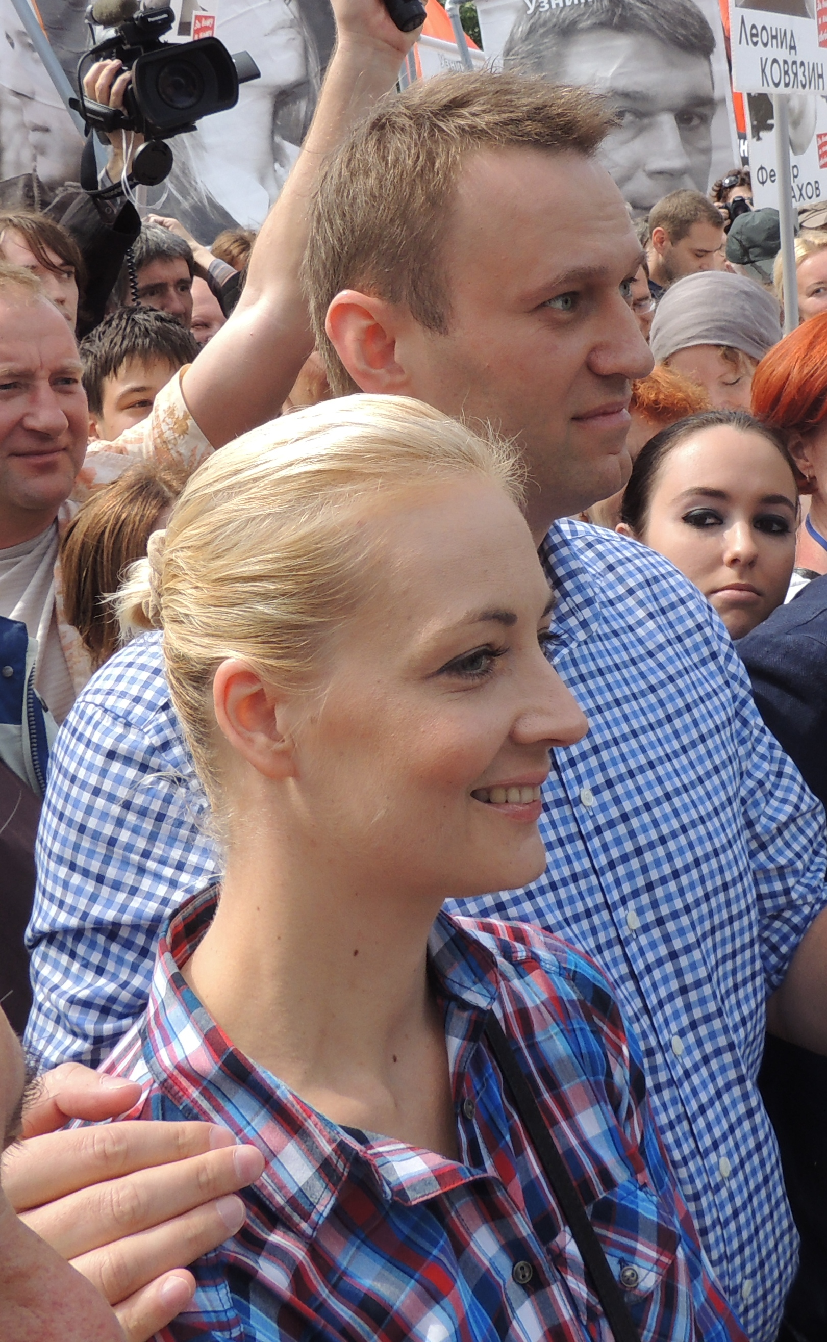 Alexei Navalny with wife Yulia at Moscow rally 2013-06-12